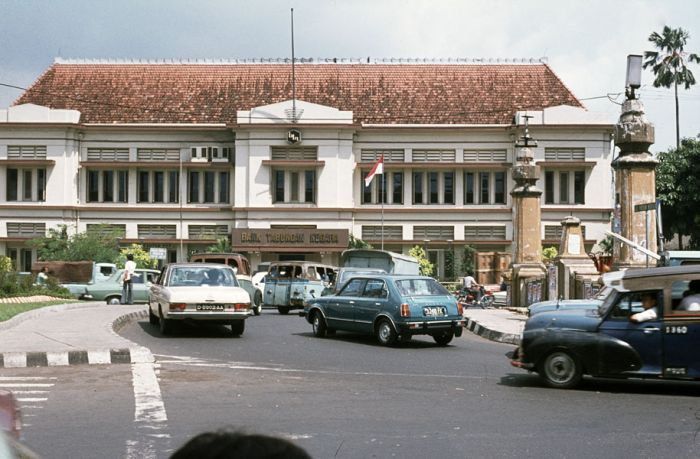 Office of the Bank Tabungan Negara